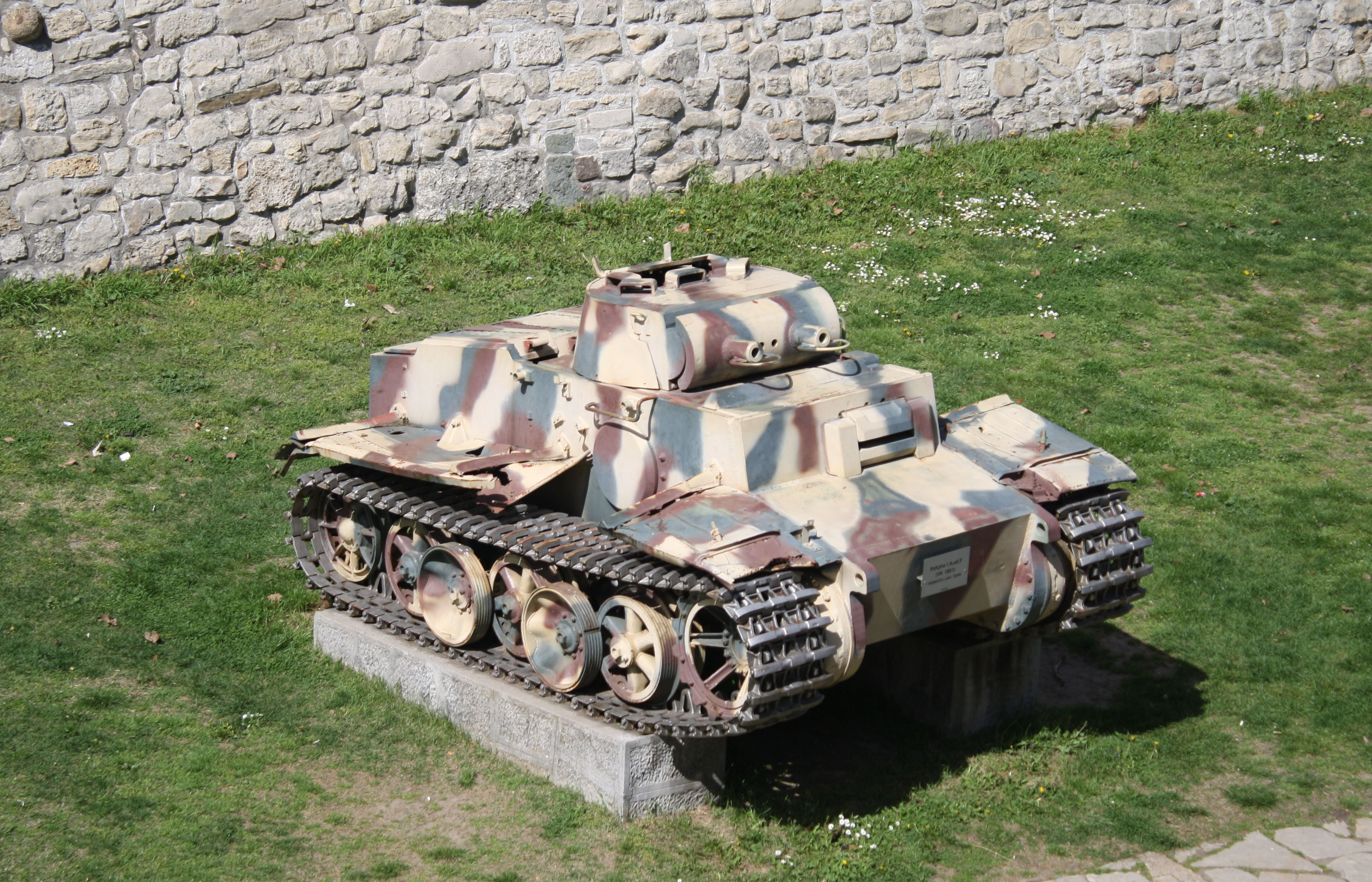 German WWII PzKpfw I Ausf. F light tank, part of Belgrade Military Museum outer exhibition at Kalemegdan fortres.